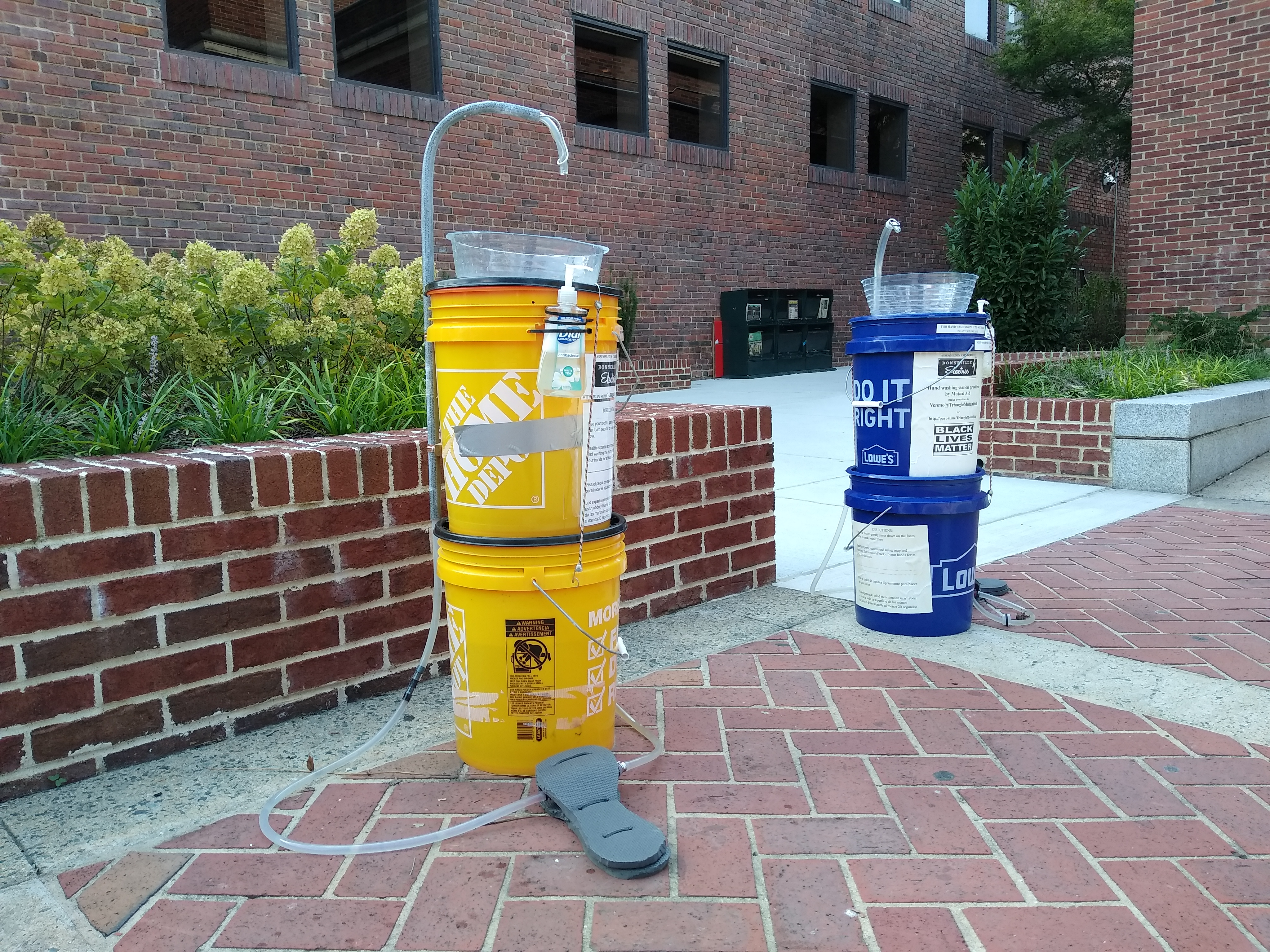 A public handwashing station in Chapel Hill, North Carolina, during the COVID-19 pandemic.